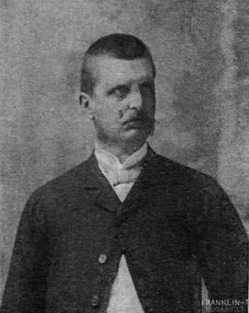 Béla Cziráky